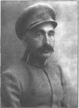 Petro Taranushchenko, artillery regiment commander of Ukrainian greycoats